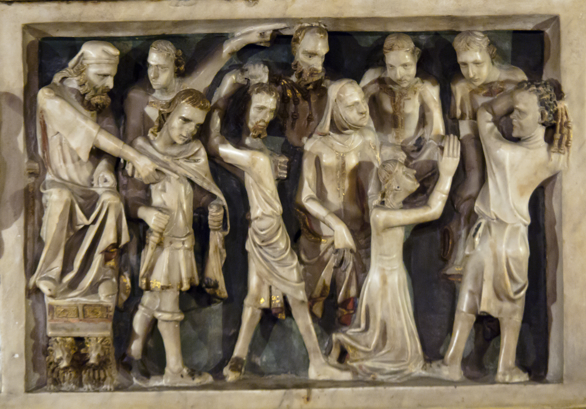 Centre main panel with the second scene, depicting how Eulalia is martyred by whipping under the command of praeses Datianus. Created by an unknown sculptor from Pisa in the 14th century. (See here.)